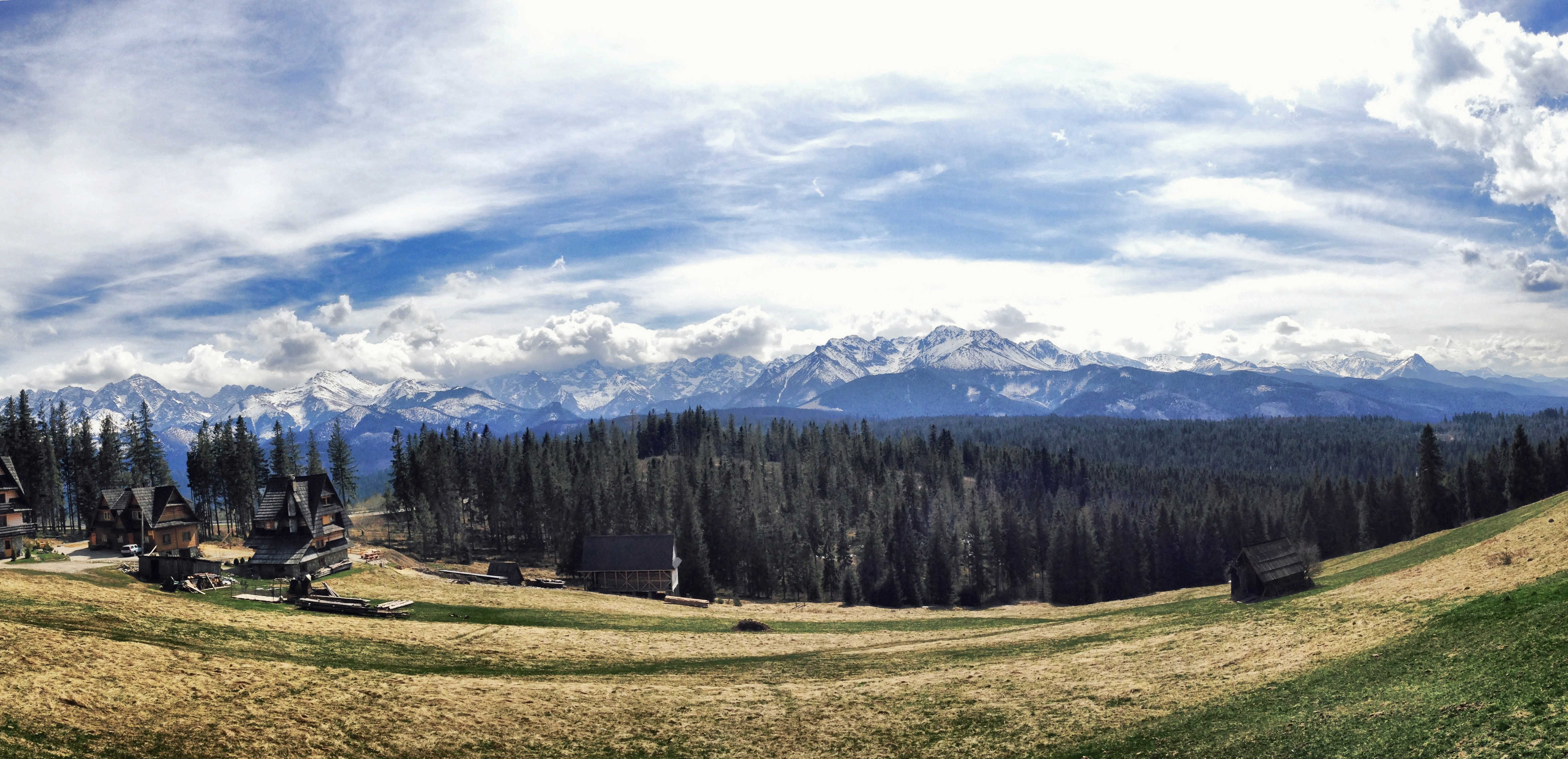 Tatry. This is a photography of Natura 2000 protected area with ID PLH120024